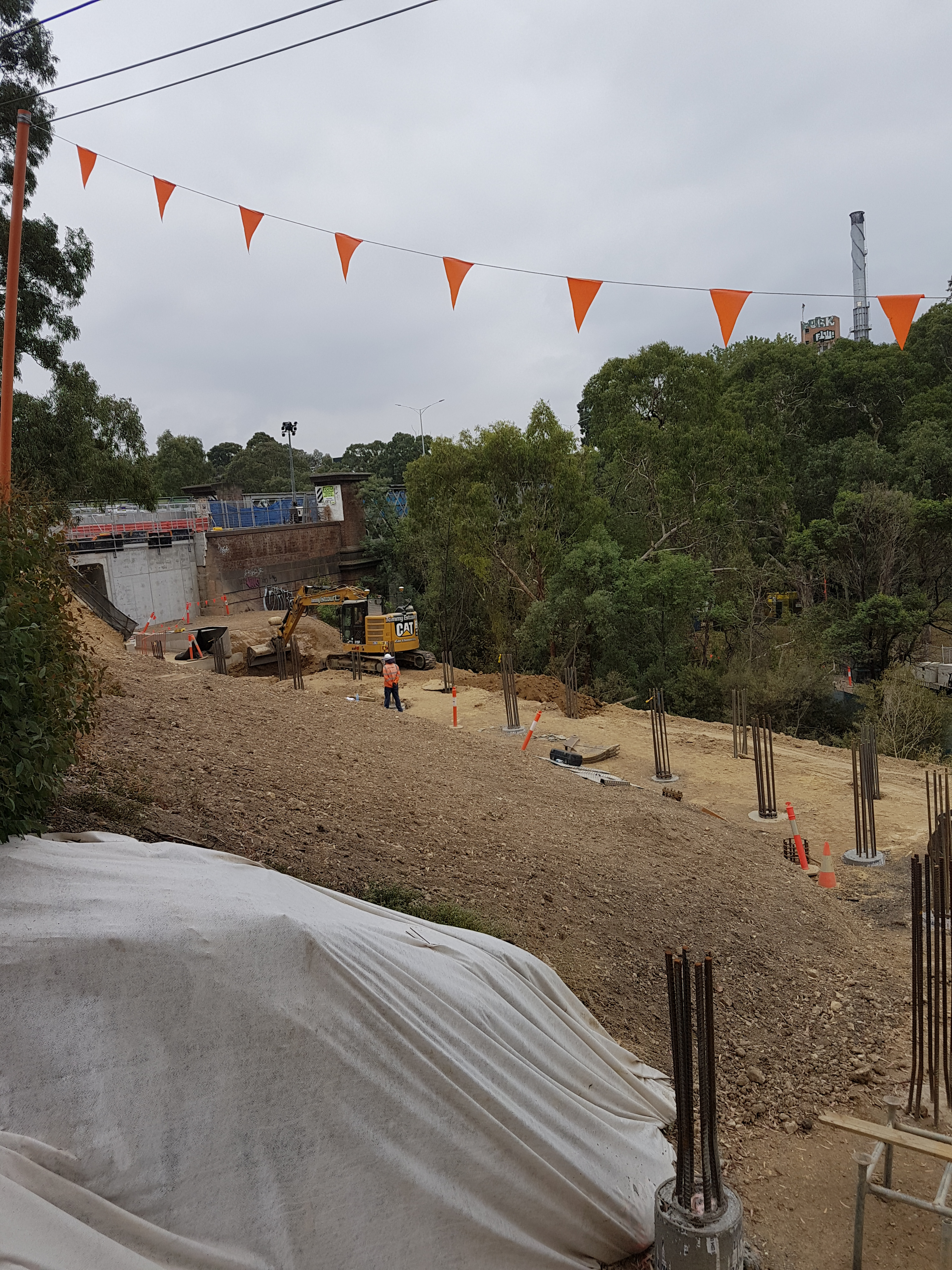 Landscaping and bicycle path construction on eastern side of Chandler Highway Bridge. The old railway bridge is visible in the background.